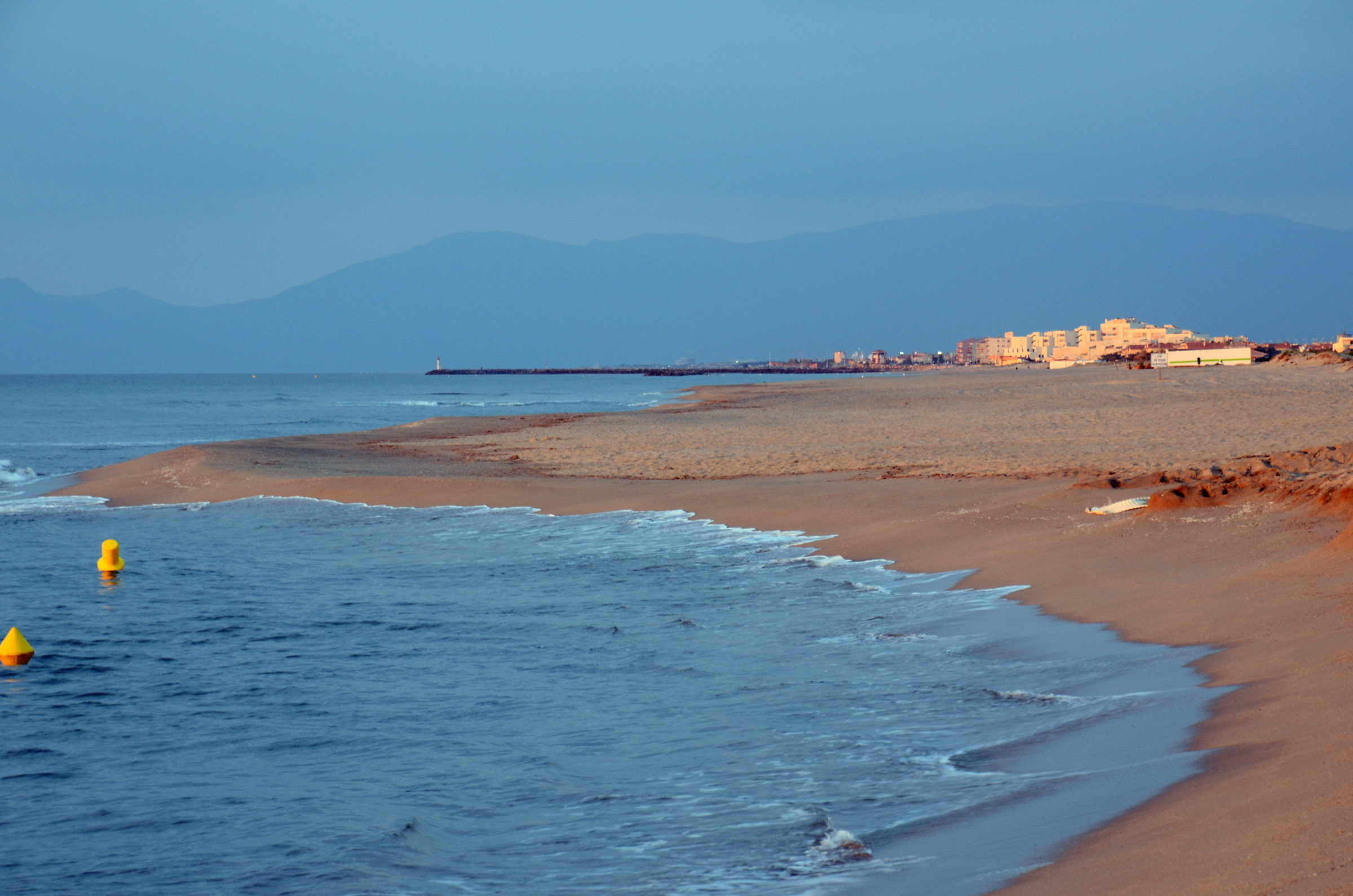 Le Barcarès